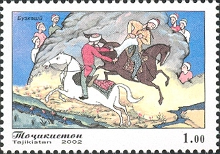 Stamps of Tajikistan